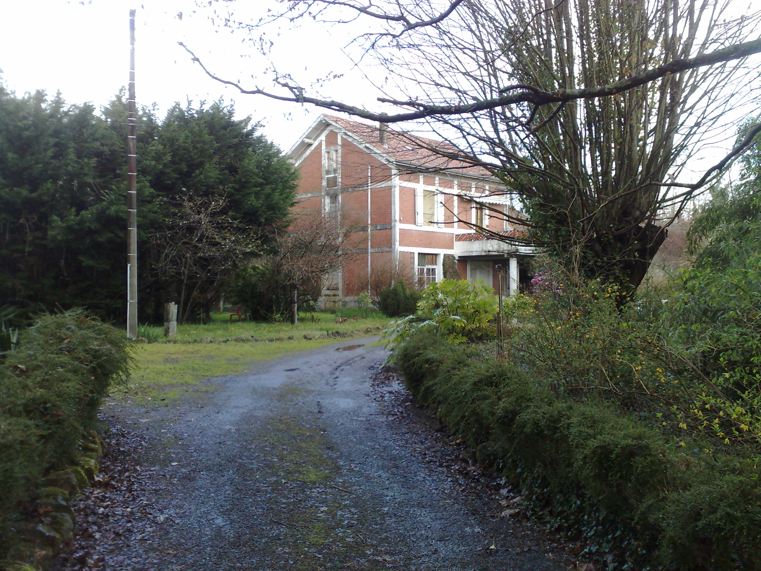 Closed Samatze-Gixune (eu), Samas-Guíshen (oc) or Sames-Guiche (fr) train station, Lower Navarre, Basque Country.